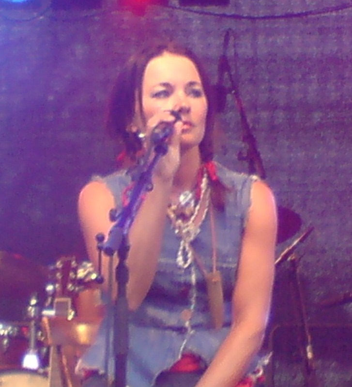 Sophie Zelmani performing in Trädgårdsföreningen in Gothenburg 10 July 2009.